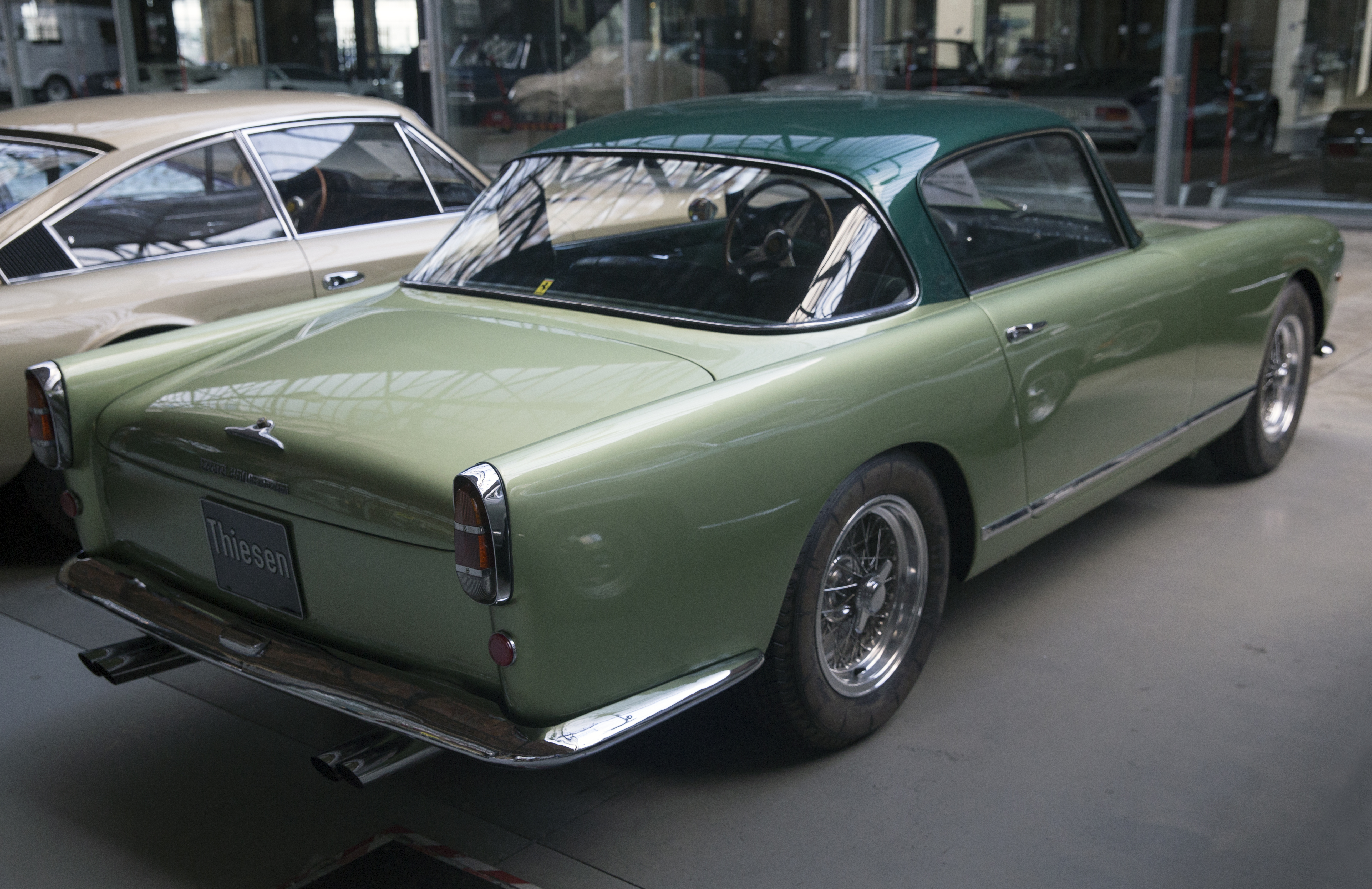 1957 Ferrari 250 GT Boano Coupé, s/n 0823GT, at Classic Remise Berlin. Stunning vehicle in lovely and unusual colors.